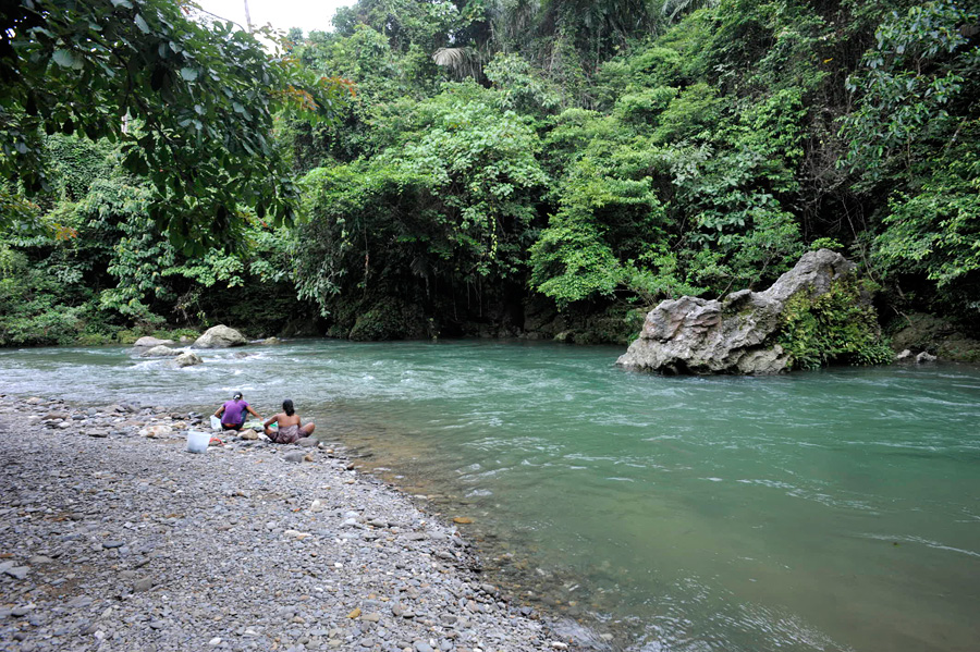 Buluh river, Tangkahan, Sumatra